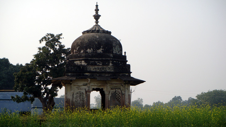 Shrine syed faizulla in Daranagar village, Uttar Pradesh state, India